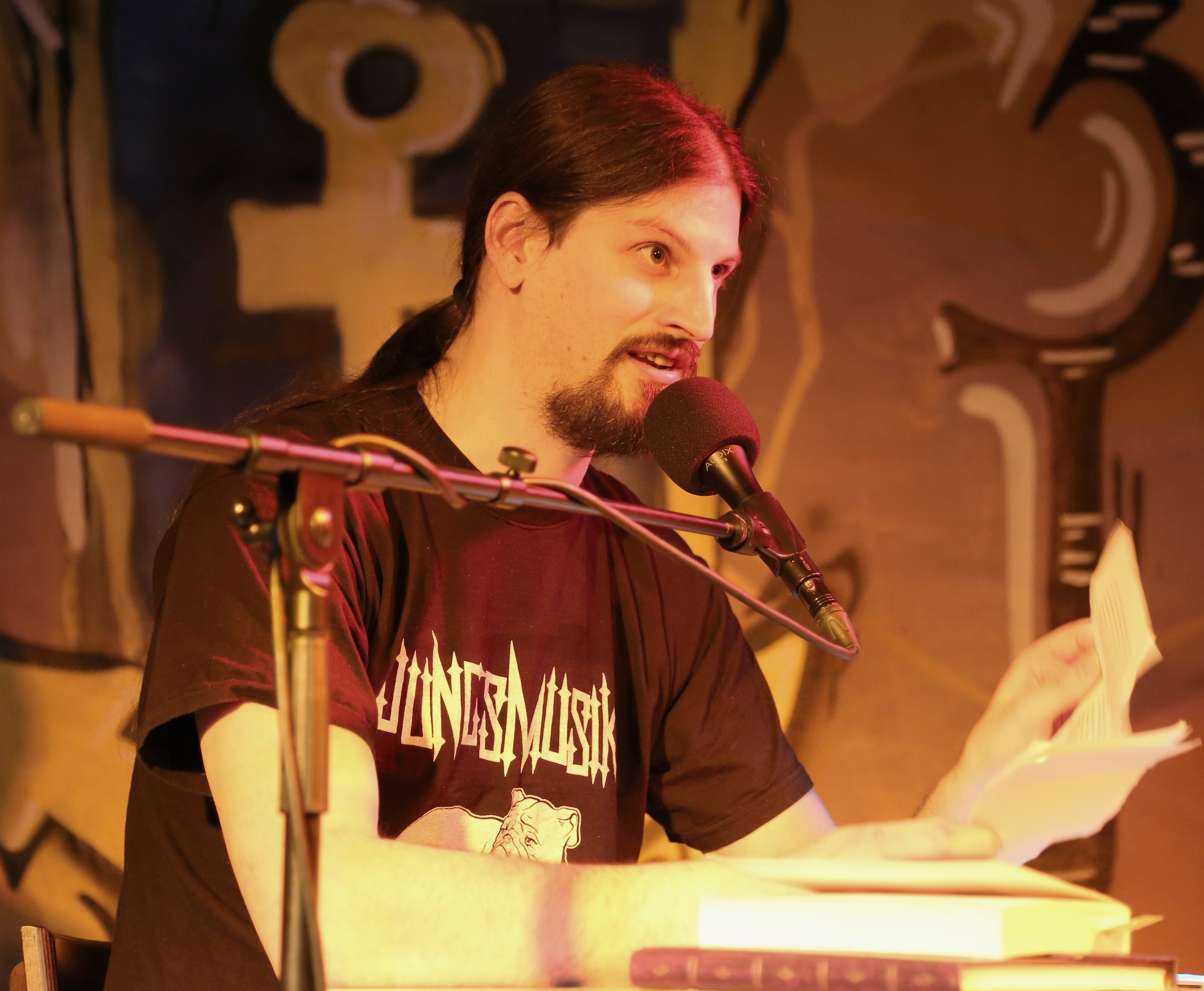 German author Michael Goehre aka Micha-El Goehre reading from his works at the Jugendkulturzentrum „Scheune“ (Youth Cultural Center „Barn“) in Ibbenbüren, Kreis Steinfurt, North Rhine-Westphalia, Germany.